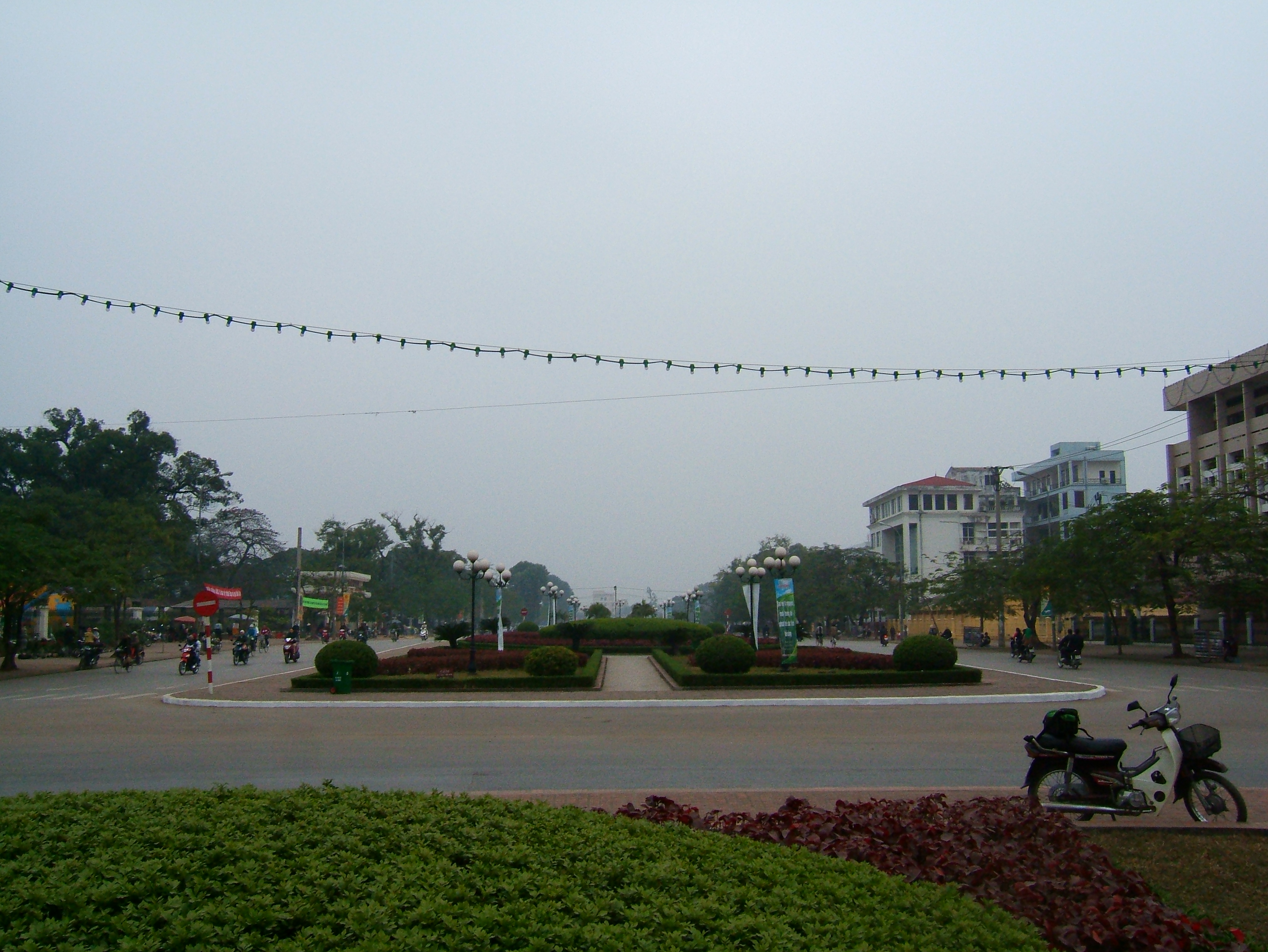 Thai Nguyen, Vietnam. Originally uploaded to Vietnamese wikipedia by Viethavvh as PD-self.